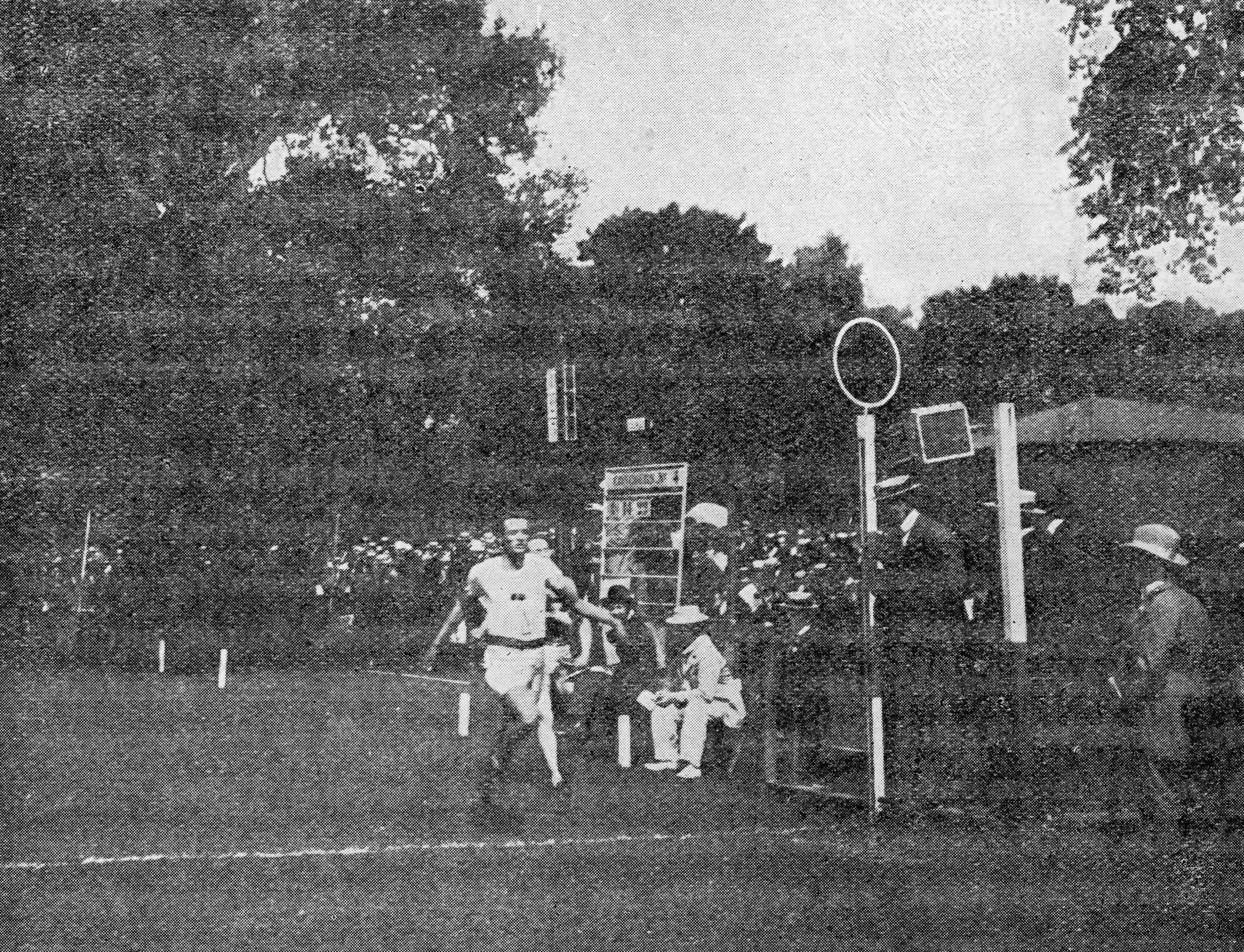 Book by Pierre de Coubertin